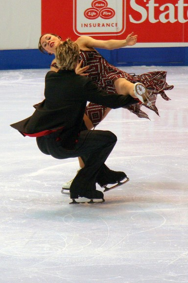 Nathalie Péchalat and Fabian Bourzat perform a dance spin during their original dance at the 2006 Skate America.